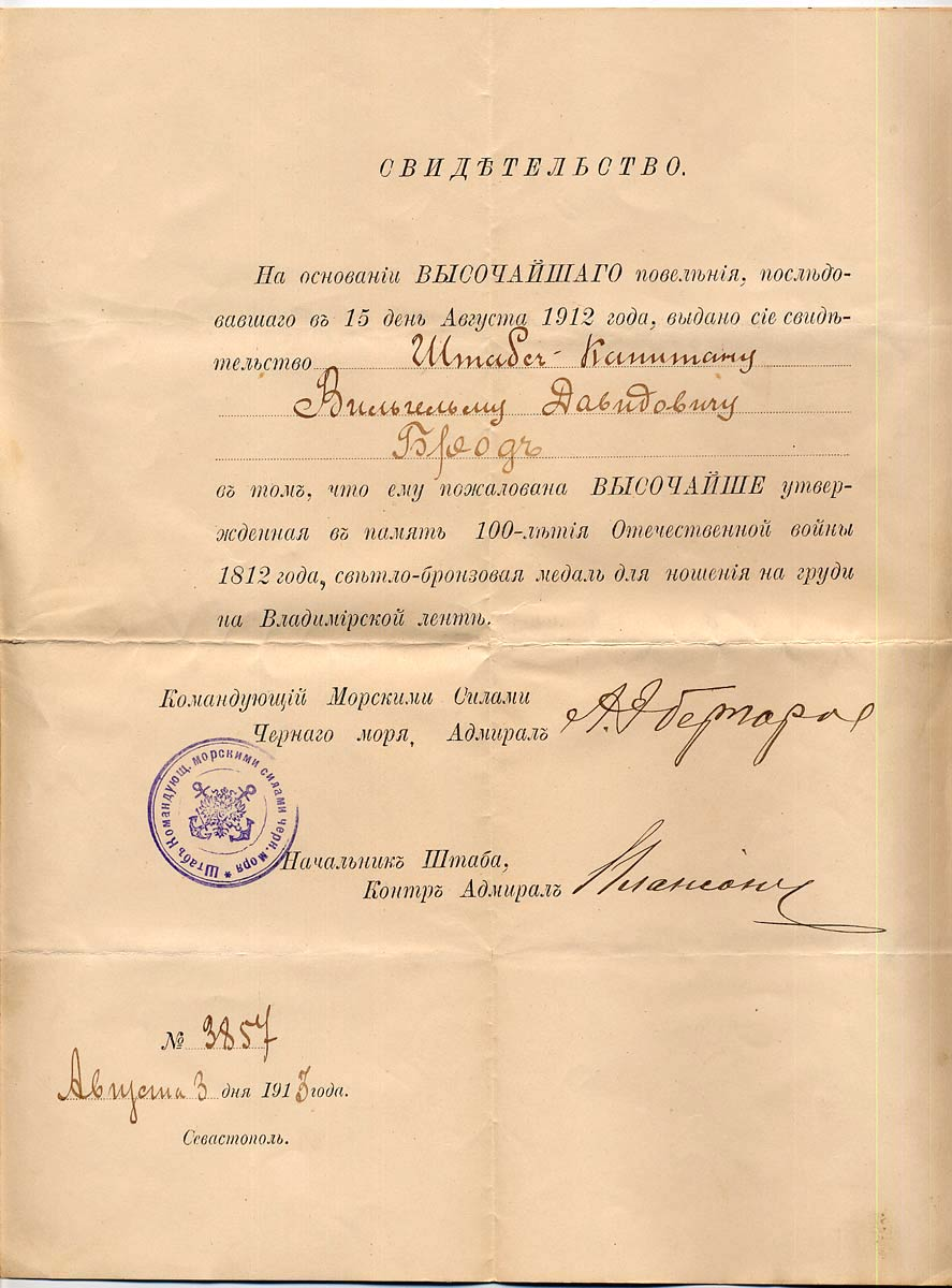 Certificate of medal "In memory of 100th anniversary of 1812 year war"